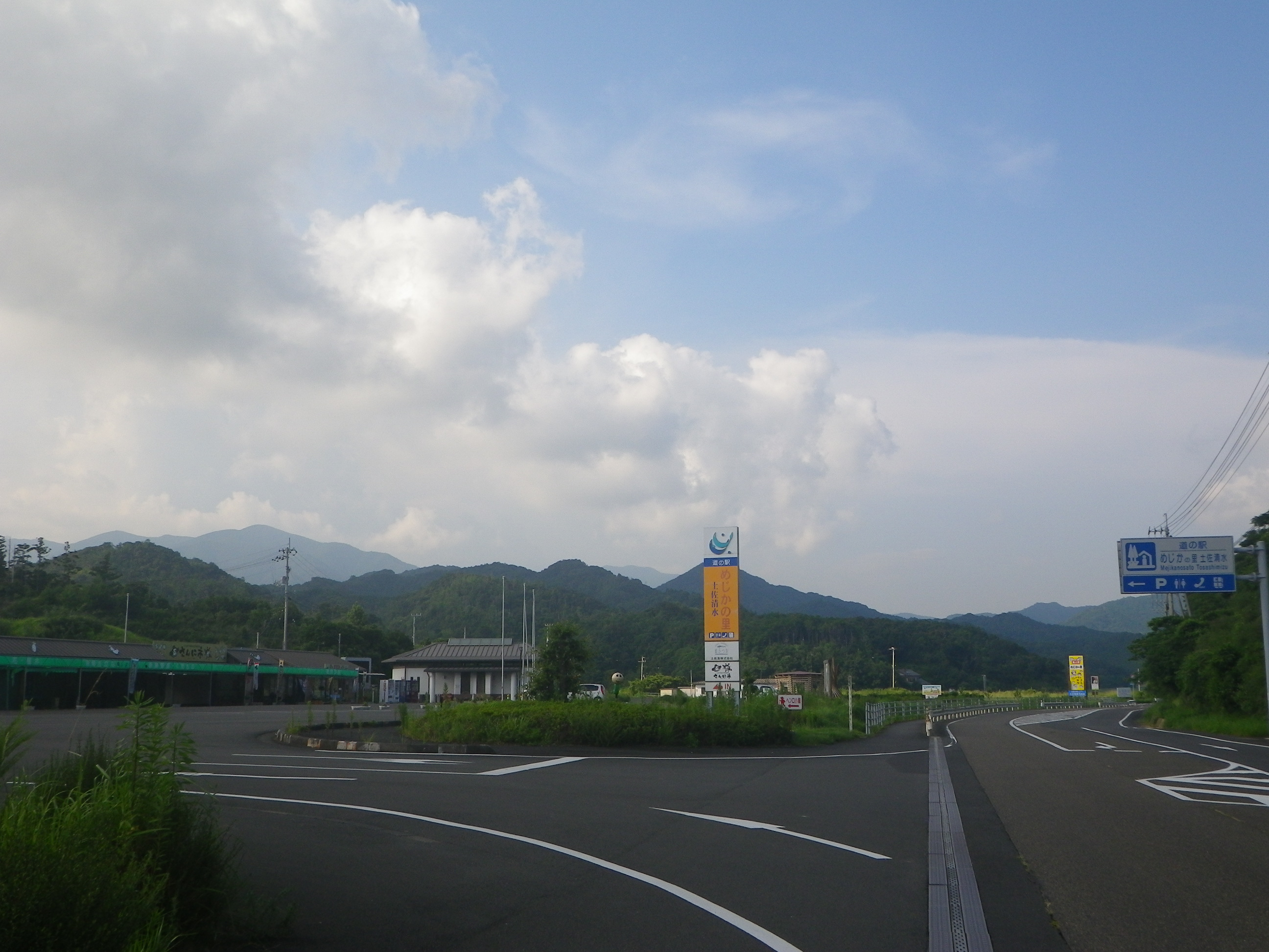 Roadside Station Mejikanosato Tosashimizu